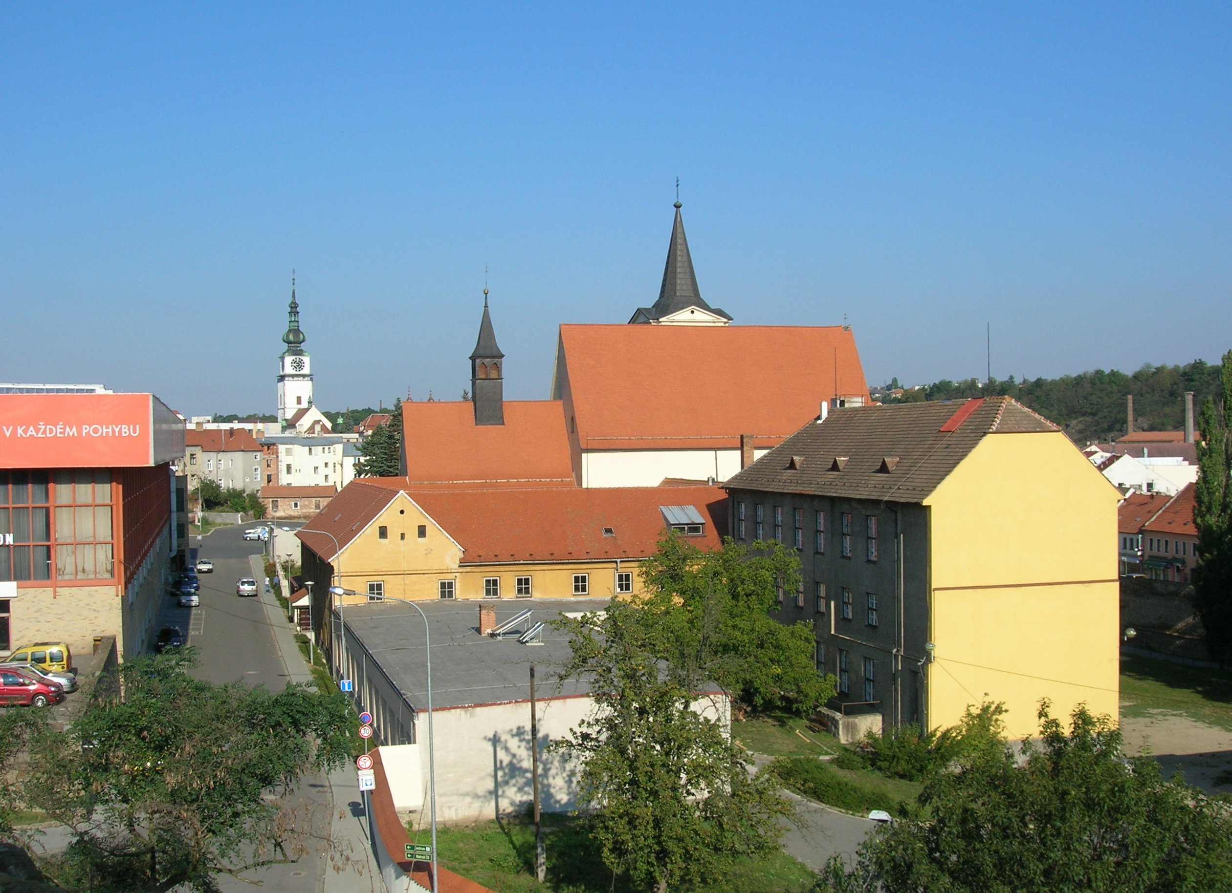 Třebíč-Jejkov. Former friary of Order of Friars Minor Capuchin